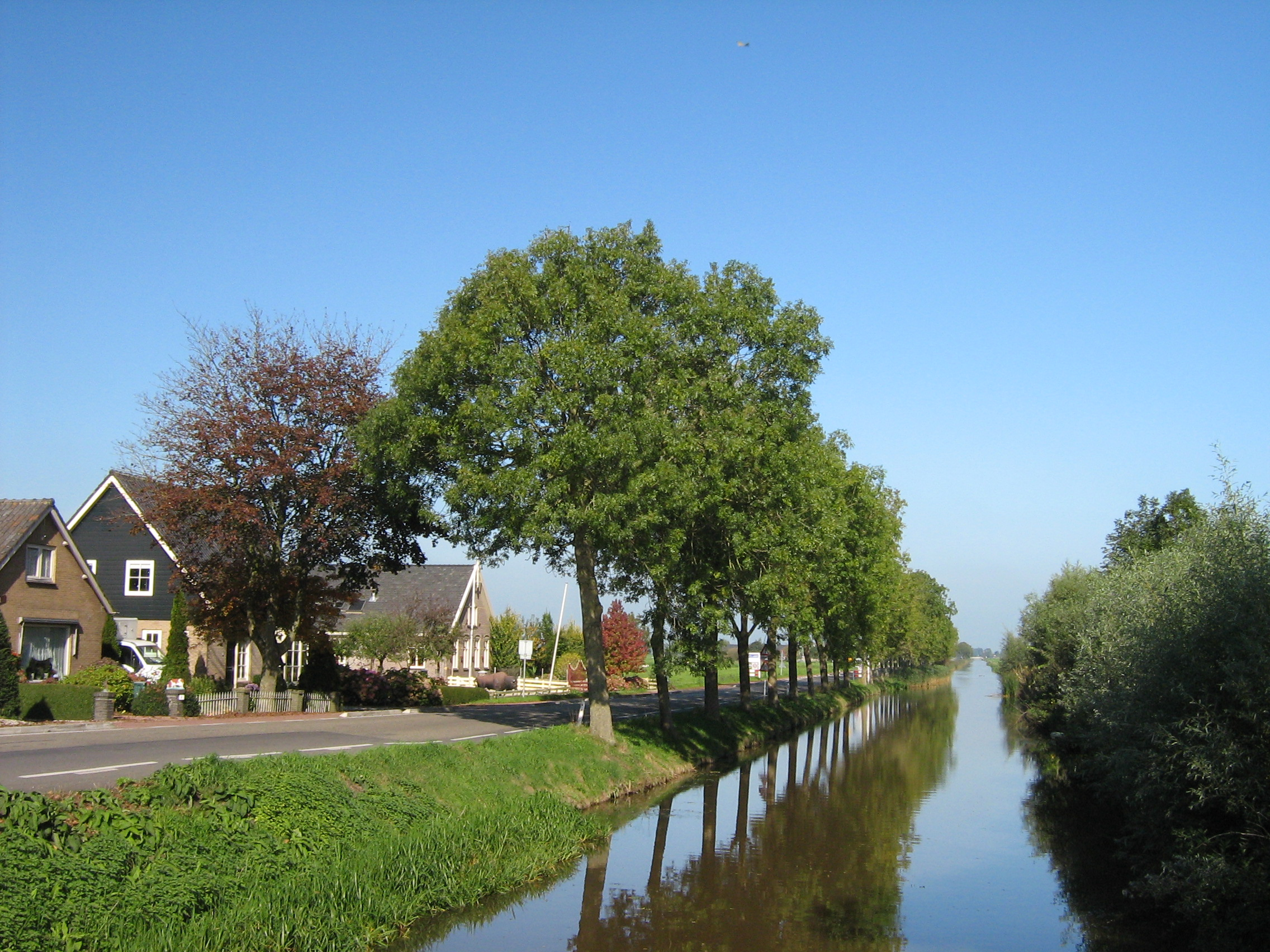 Photograph taken at the crossing of the Hoofdweg, the Cliffordweg and the Waverveensepad in Waverveen, a village in the province of Utrecht, the Netherlands. The canal is called the Hoofdtocht. Photograph taken from the south on October 6 2007 by the uploader, who has donated it to the public domain.